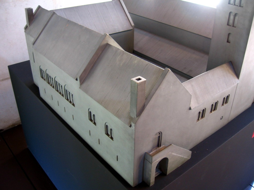 Jindrich Zdik´s Palace in Olomouc, The Czech Republic